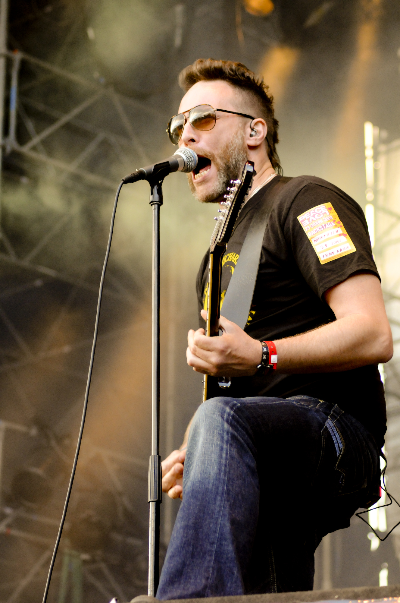 Mustasch, från festivalen Peace and Love 2008 i Borlänge